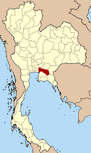 Map of Thailand hightlighting Chachoengsao province